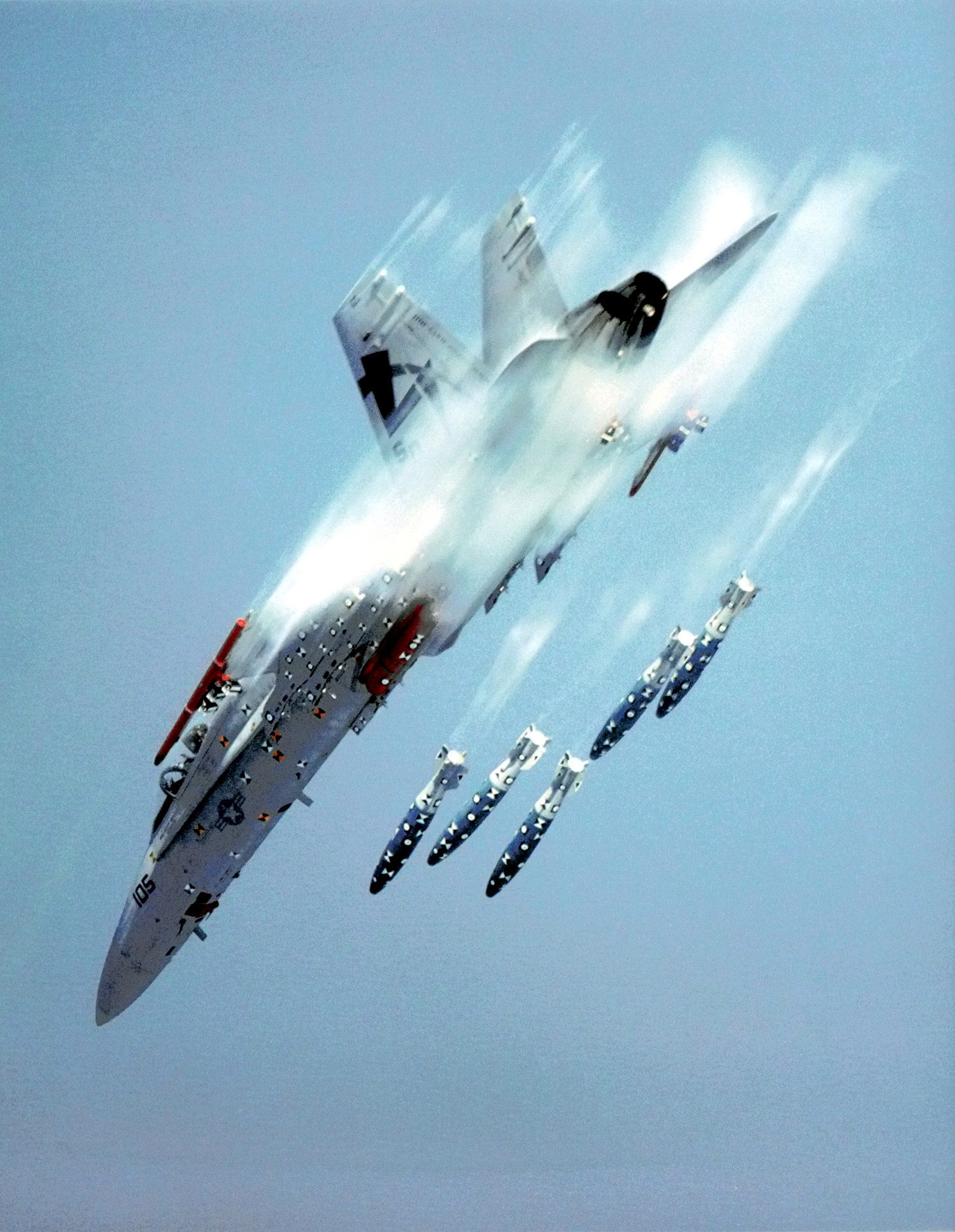 Naval Air Station, Patuxent River, Md. (July 2002) -- An F/A-18D “Hornet” from Air Test and Evaluation Squadron Two Three (VX-23) releases MK-83 1000 pound bombs during a series of Advanced Targeting Forward Looking Infrared (ATFLIR) adjacent stores release tests over the Atlantic Test Range. Tests are designed to evaluate the safe separation of various weapons when released adjacent to the ATFLIR system on the F/A-18C/D strike-fighter aircraft. U.S. Navy photo by Vernon Pugh. (RELEASED)